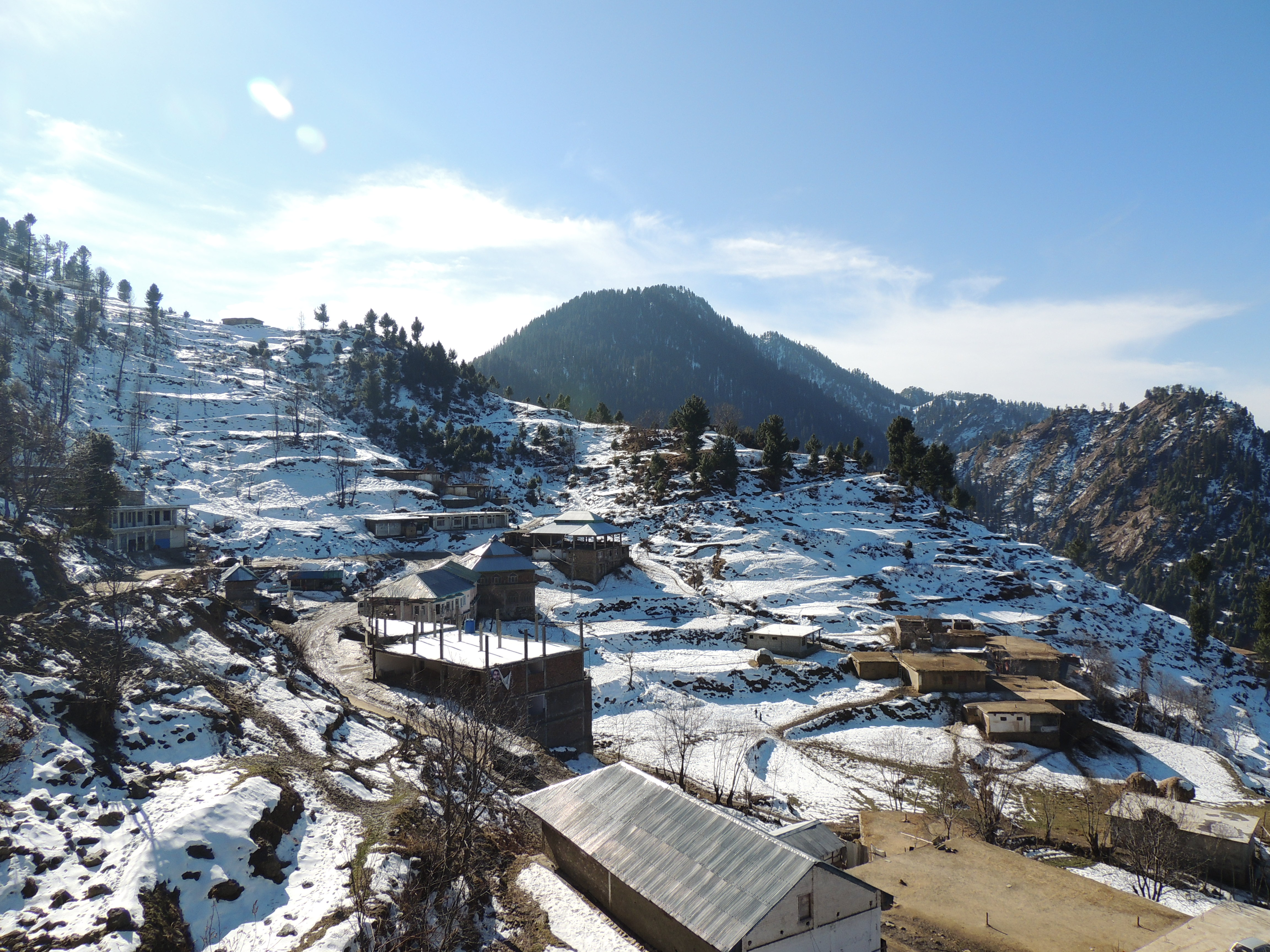 Malam Jaba, Swat, Pakistan